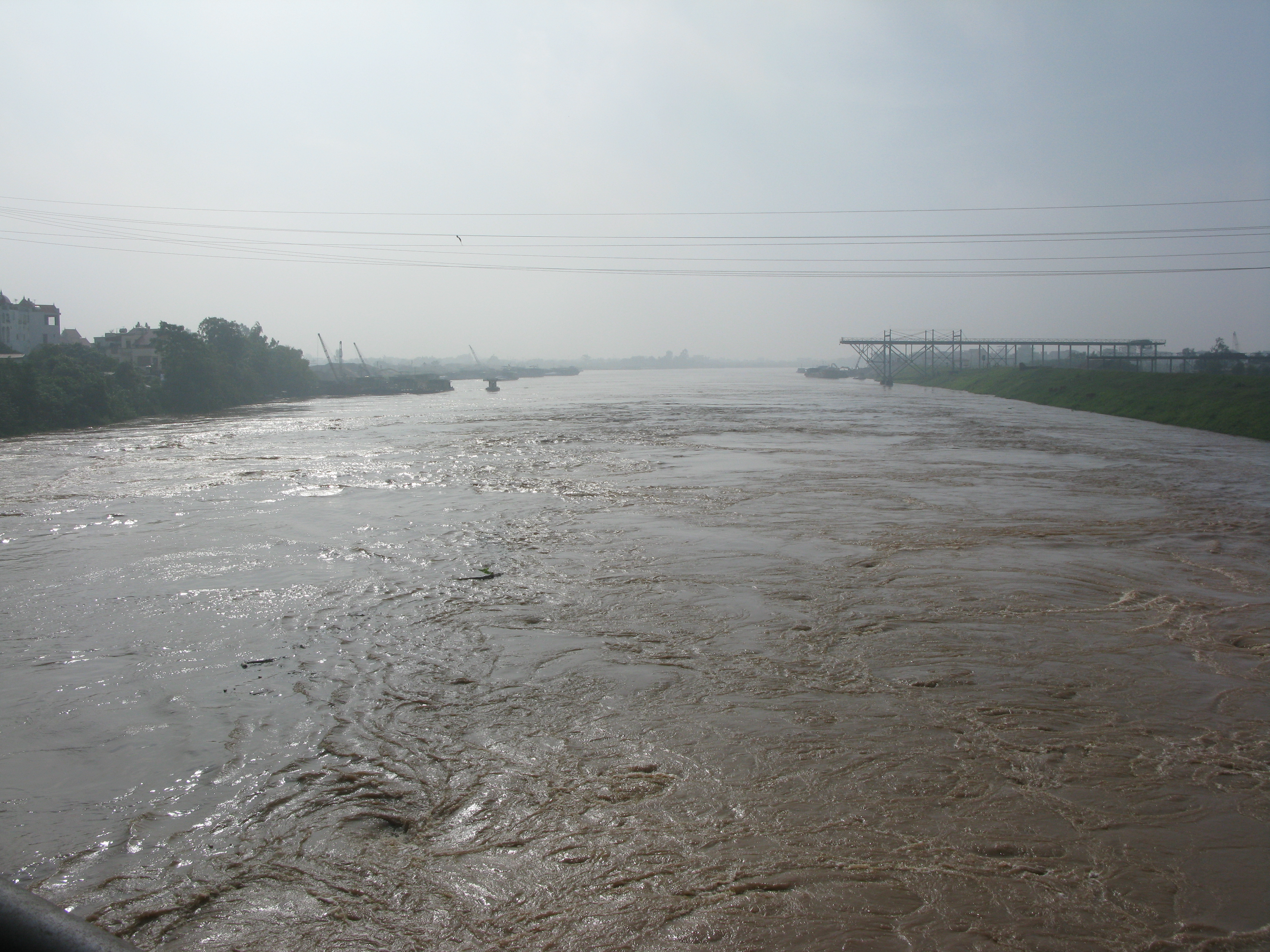 Duong River seen from Duong Bridge, Hanoi, Vietnam